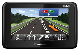 TomTom GO Live 1000